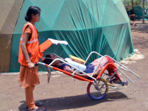 The ambulance we designed for snakebite affected villages throughout India. This is the ambulance in the wheelbarrow mode. It can also be carried by 2 people like a stretcher, and attached onto a bicycle. It is entirely designed by our engineers, and is for non-profit use only. We have filed a patent application to protect it from corporate interests.